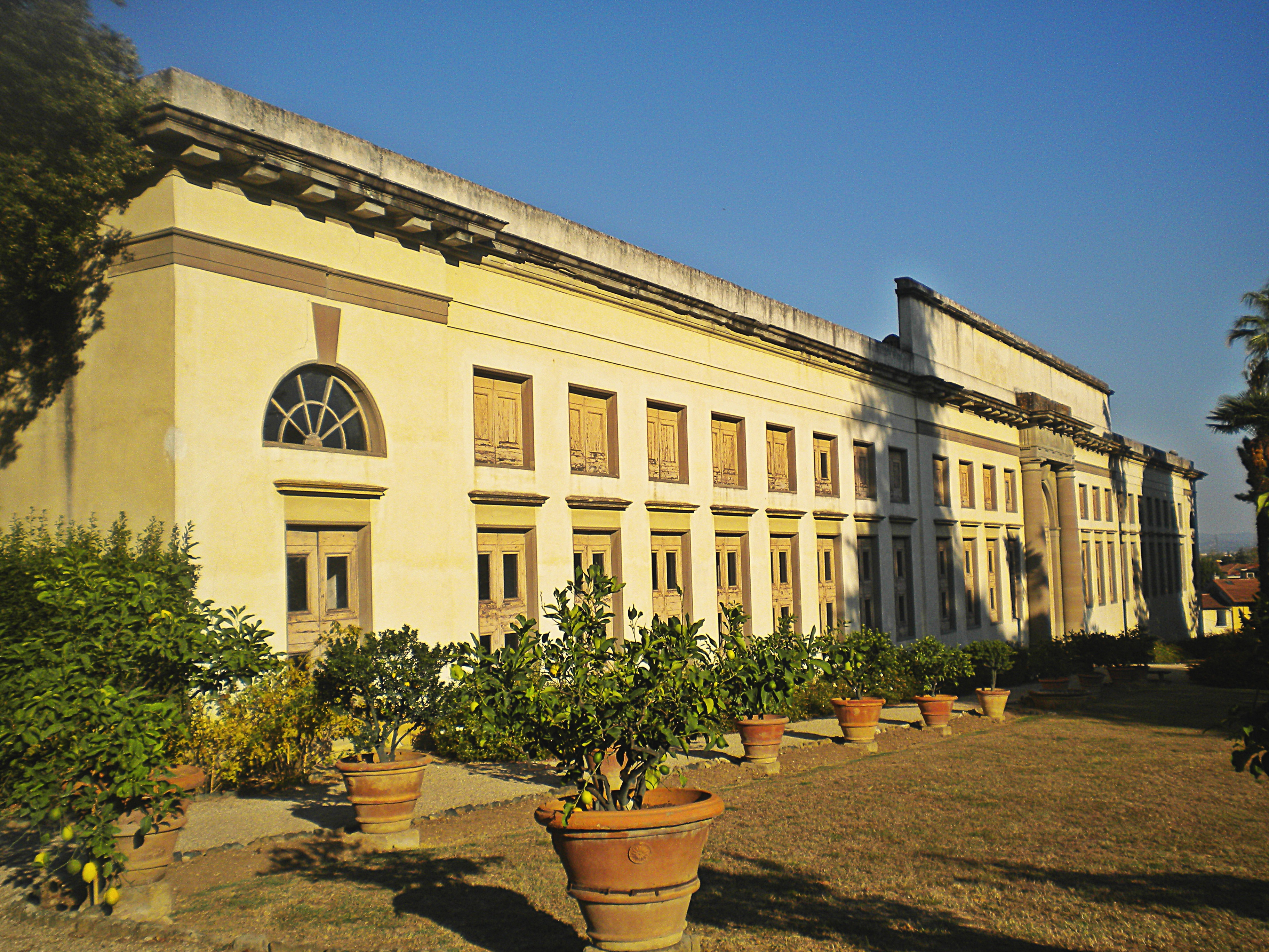 lemon